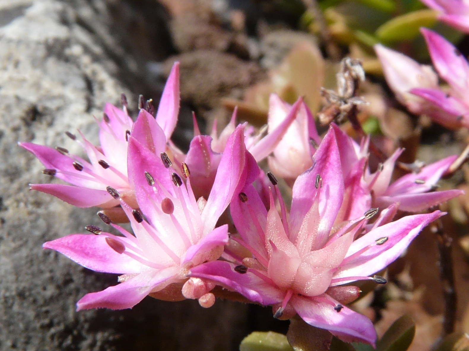 Sedum obtusifolium close-up (Botanical Gardens Utrecht)